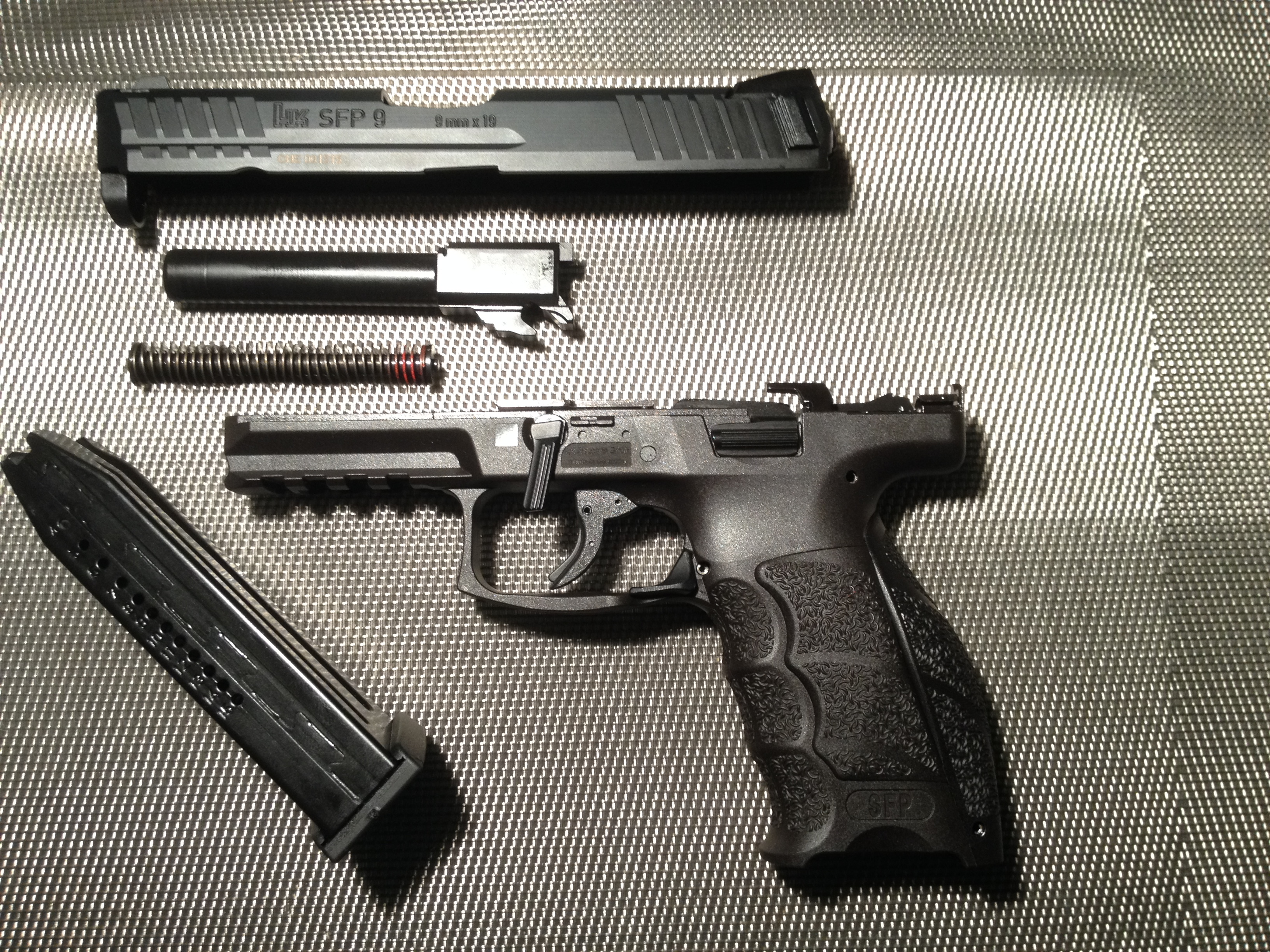 HK-SFP9 pistol disassembled